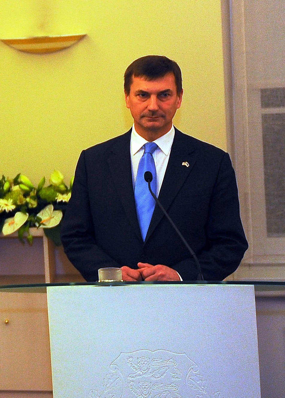 Estonian Prime Minister Andrus Ansip in 2008.